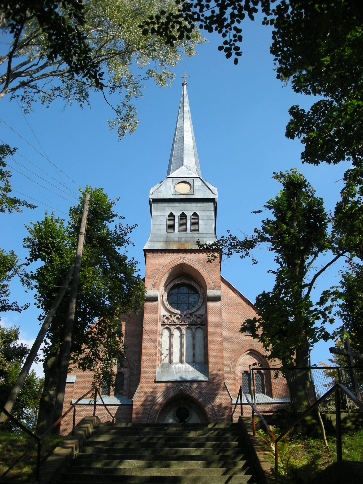 The church in Miasteczko Krajeńskie, Poland.